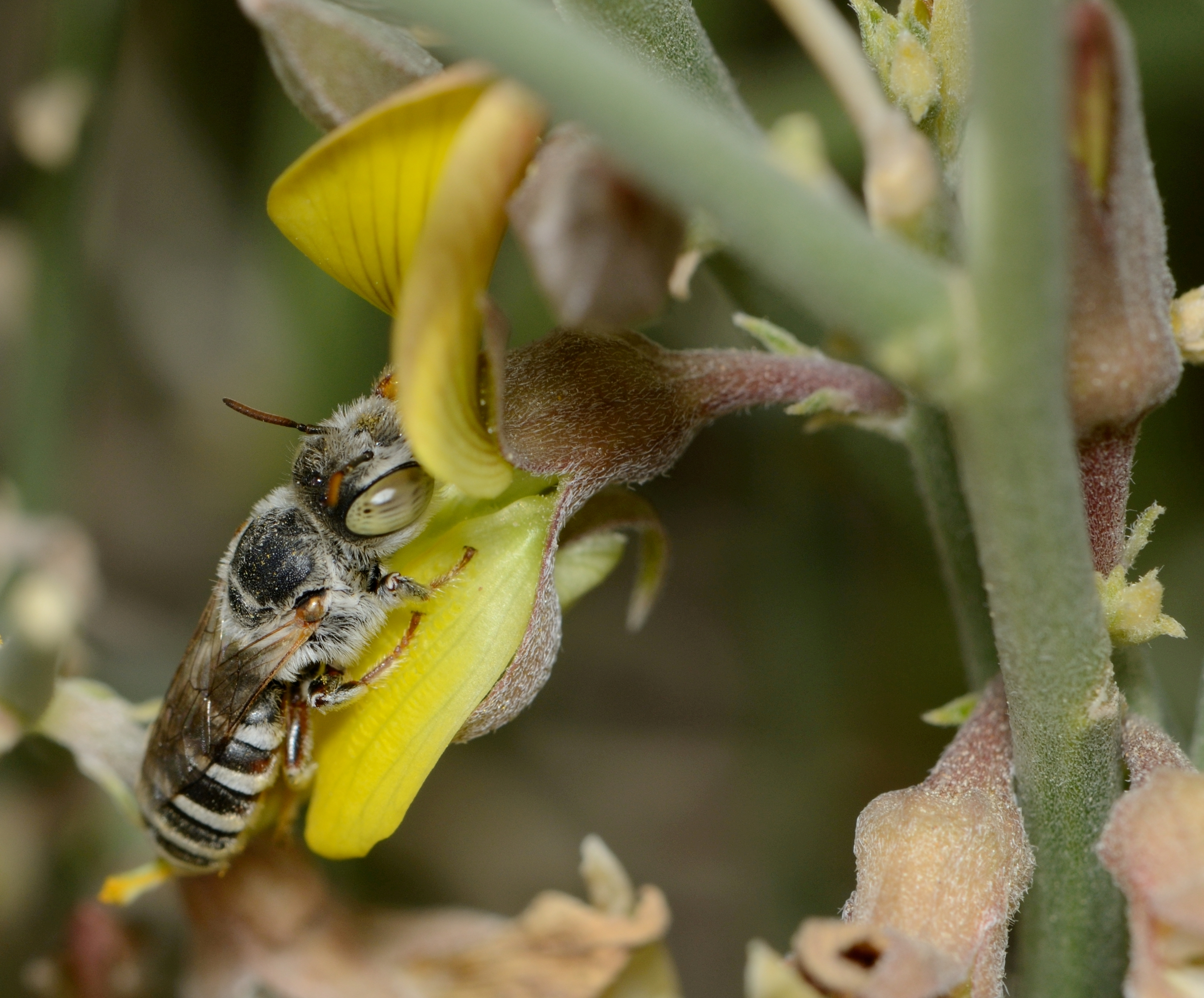 Hoplitis (Hoplitis) parana (Warncke, 1991), female extracting nectar from Crotalaria aegyptiaca Benth., Shezaf Reserve, Rift Valley, Israel, March 11, 2013.